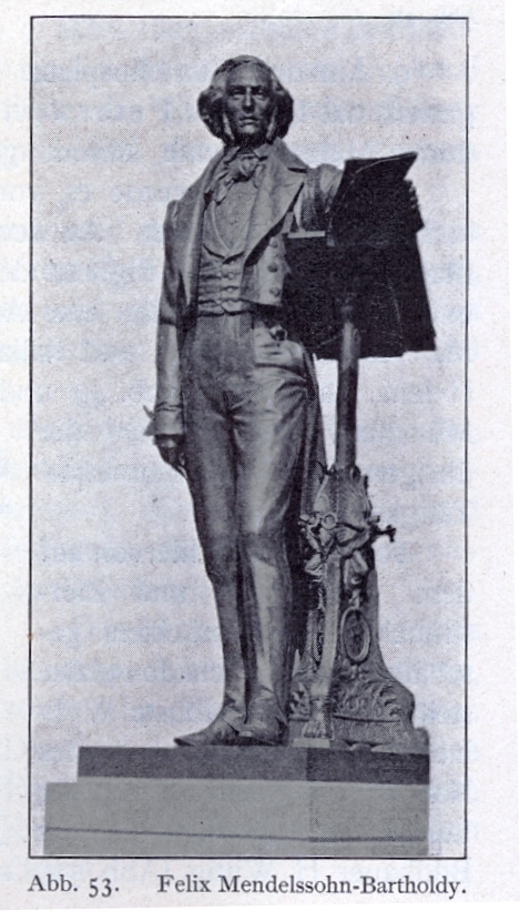 Bronzestandbild von Felix_Mendelssohn-Bartholdy, erschaffen von Professor Clemens Buscher in der Nische der Vorderfassade des Düsseldorfer Stadttheaters an der Alleestraße (Heinrich-Heine-Allee) 16a in Düsseldorf.jpg